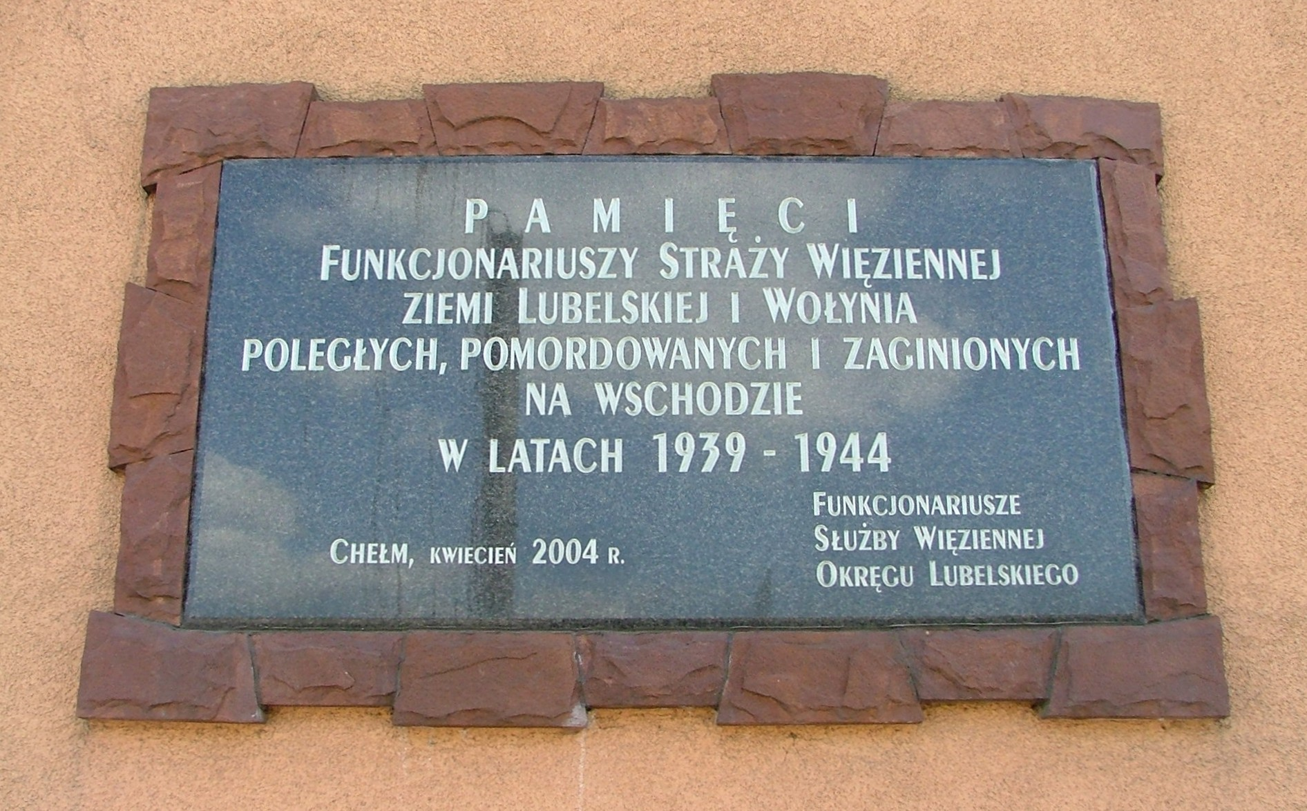 Poland, Chełm Pirson